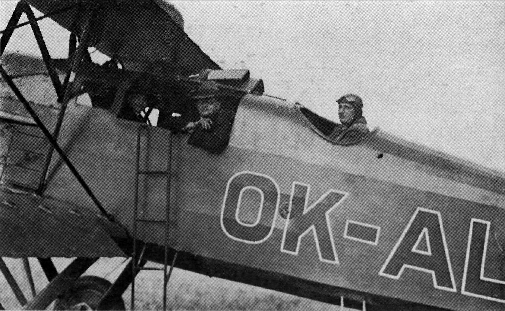 Letov Š-19 boarding Airshow 16. 7. 1933, Bruntal, Czechoslovakia